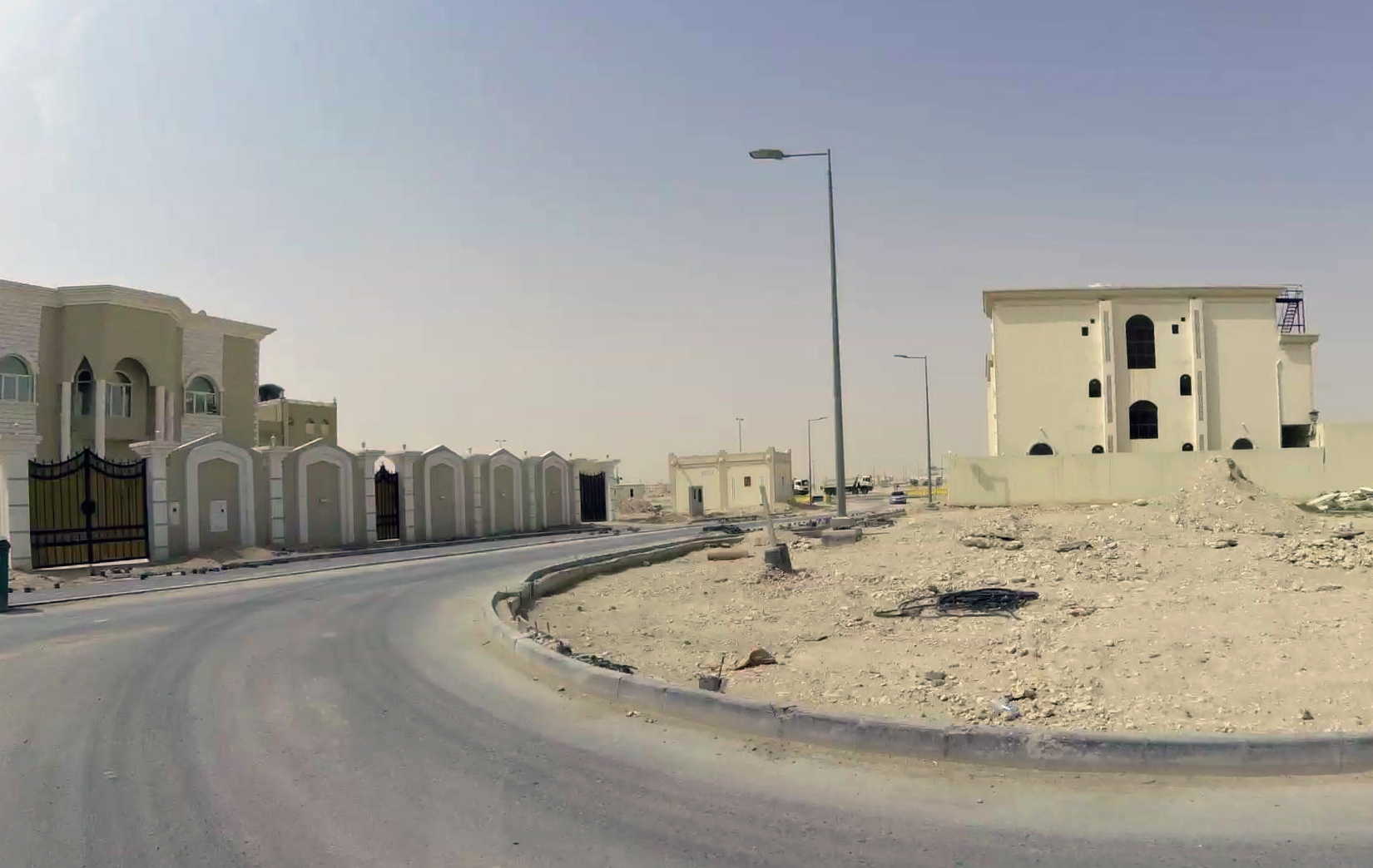 Street 1225 in Rawdat Abal Heeran, Al Rayyan Municipality, Qatar.